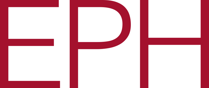 Logo of Energetický a průmyslový holding